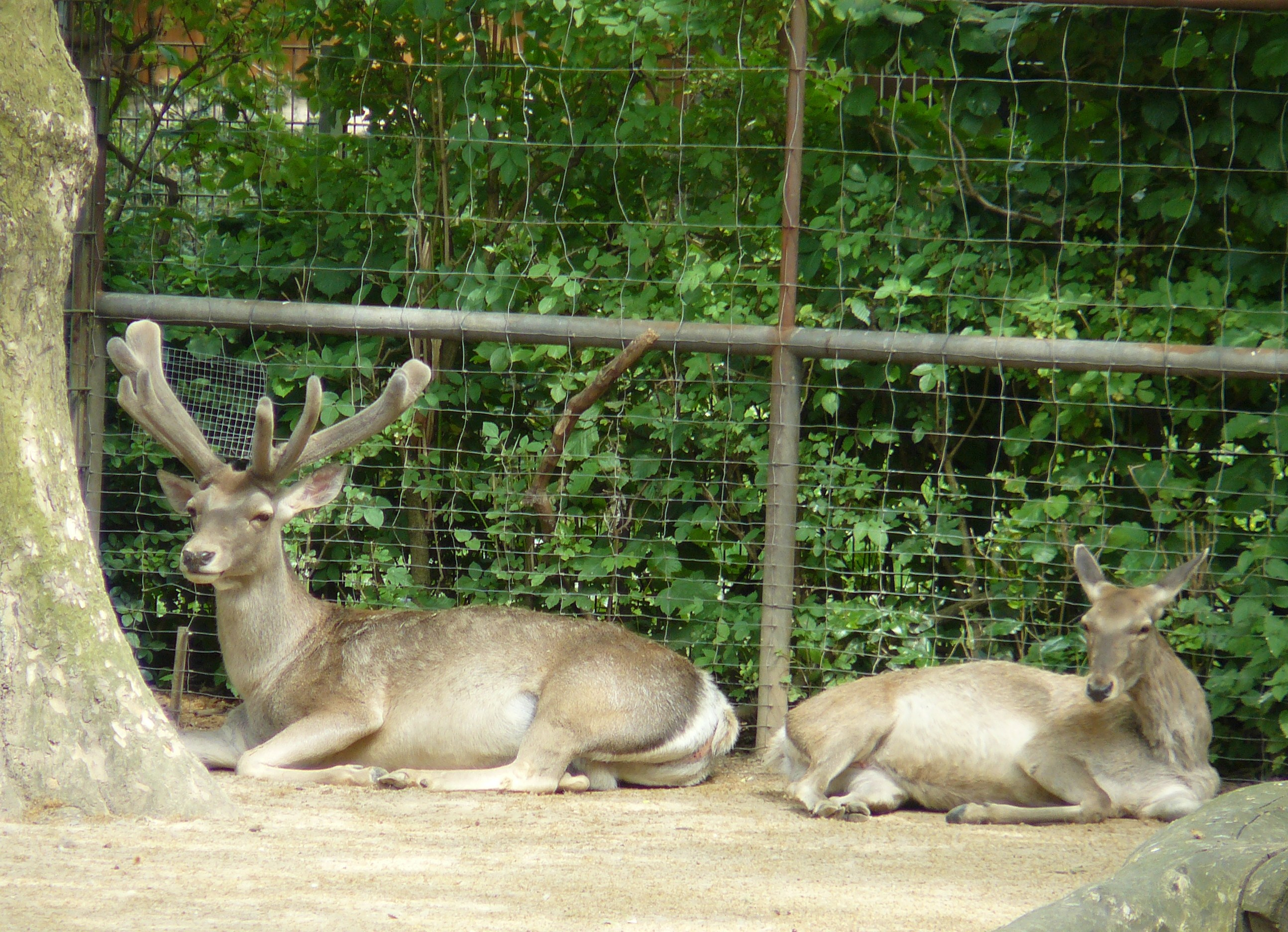 Buchara deer at Cologne Zoo